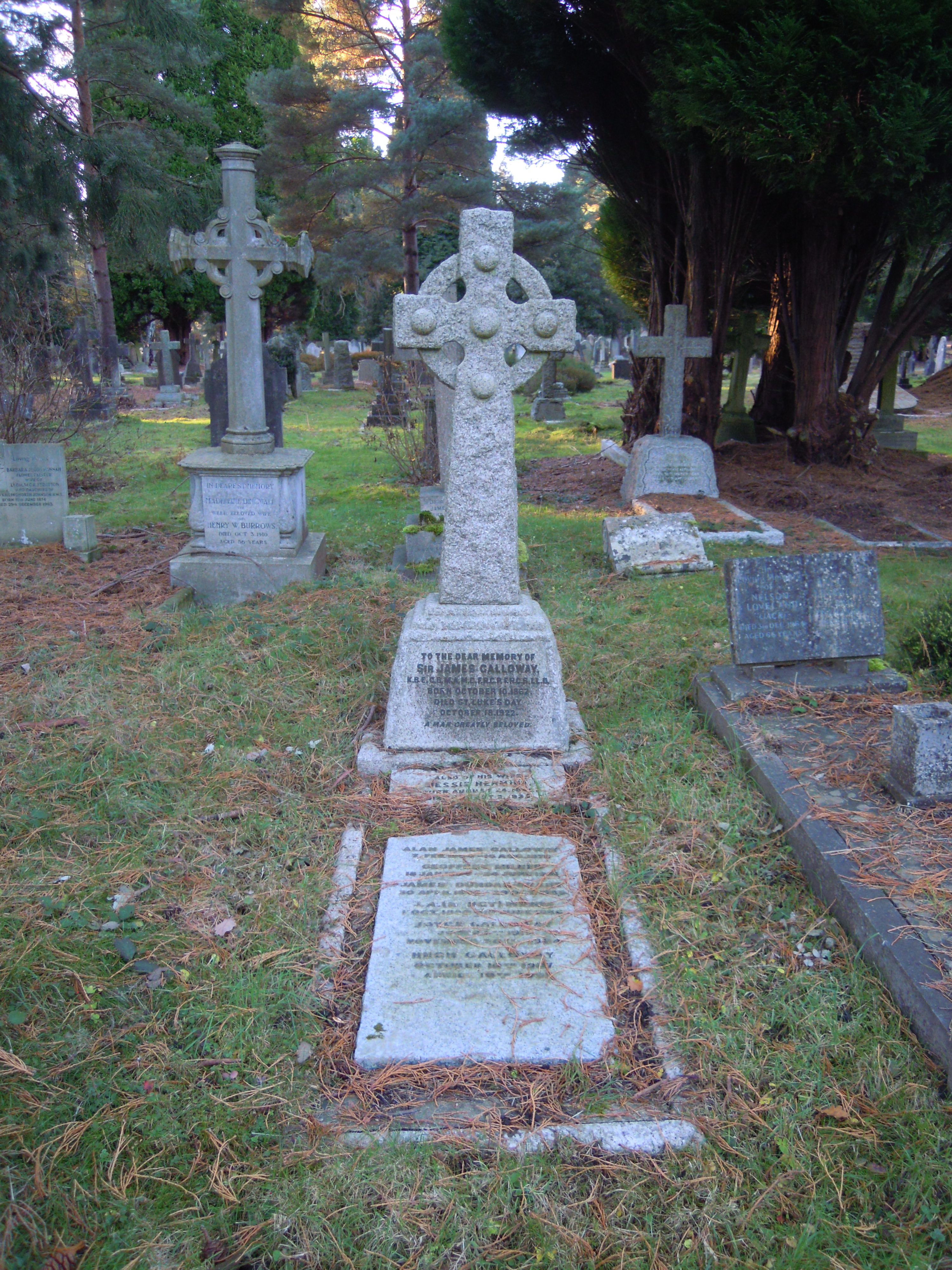 The grave of Sir James Galloway (1862-1922) at Brookwood Cemetery